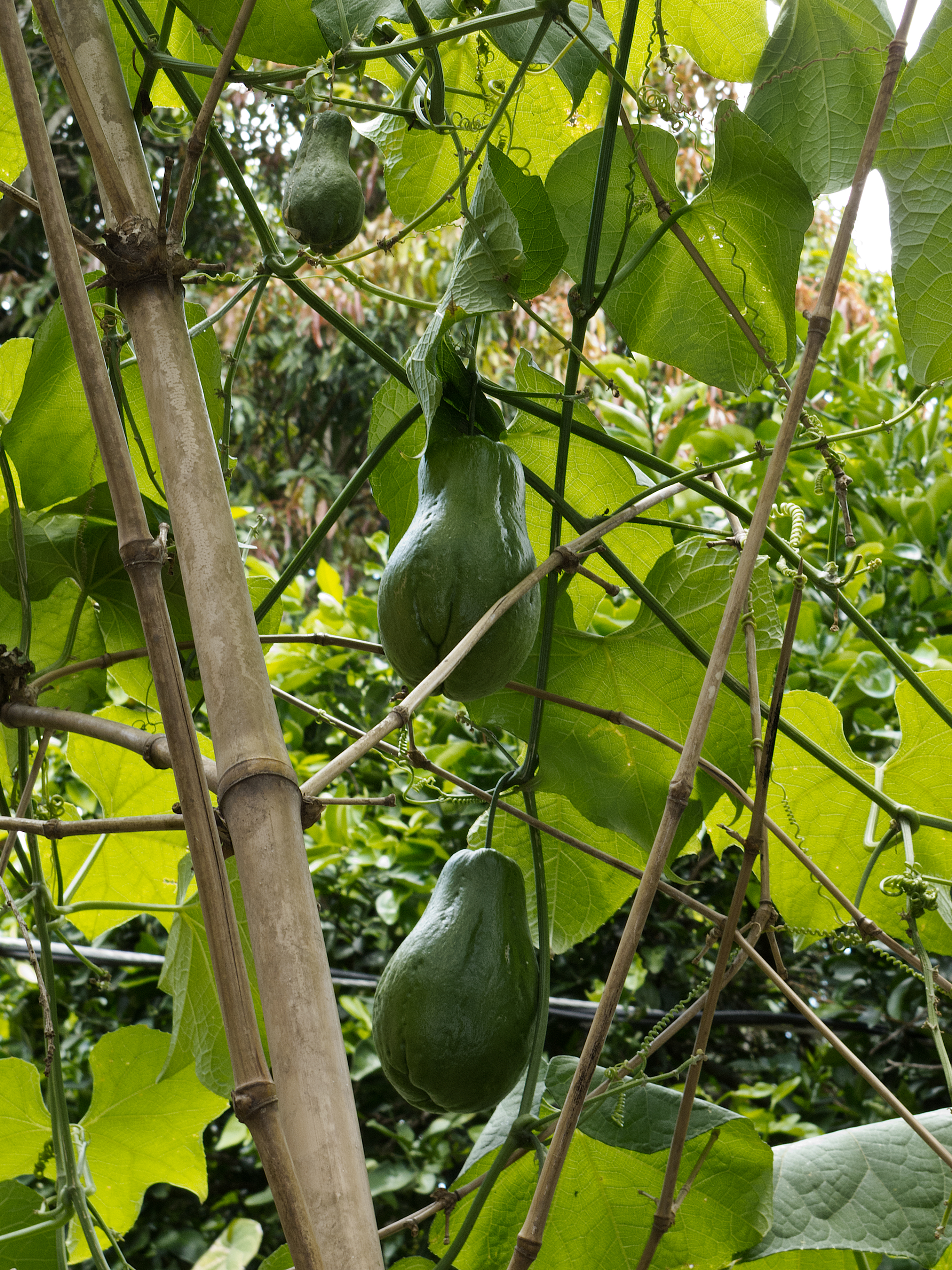 Chayote (guisquil) growing on vine in Central America